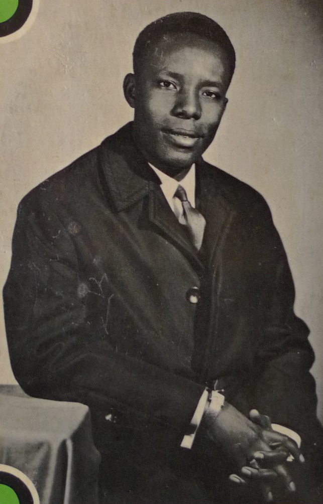 Photograph of "Docteur" Nico Kasanda on the cover of a record single produced by Ngoma between 1963 and 1968